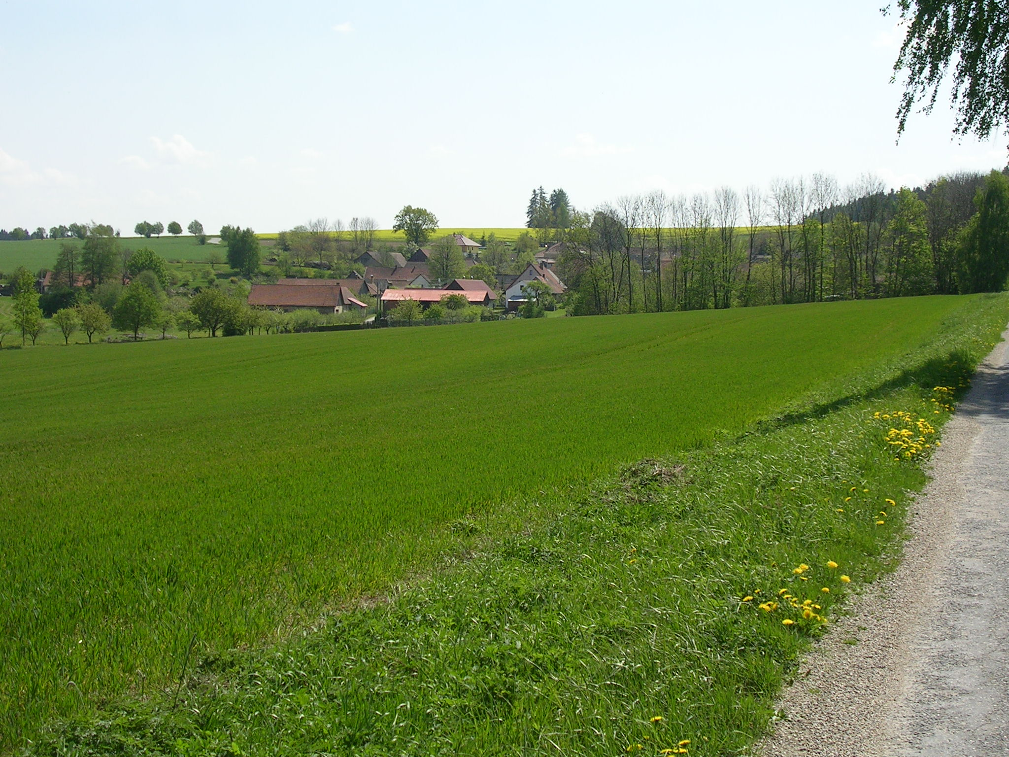 Načeradec-Slavětín, Central Bohemian Region, the Czech Republic.